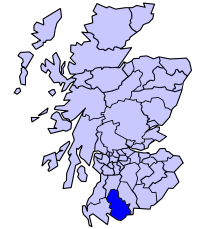 Map showing Stewartry District (1975)